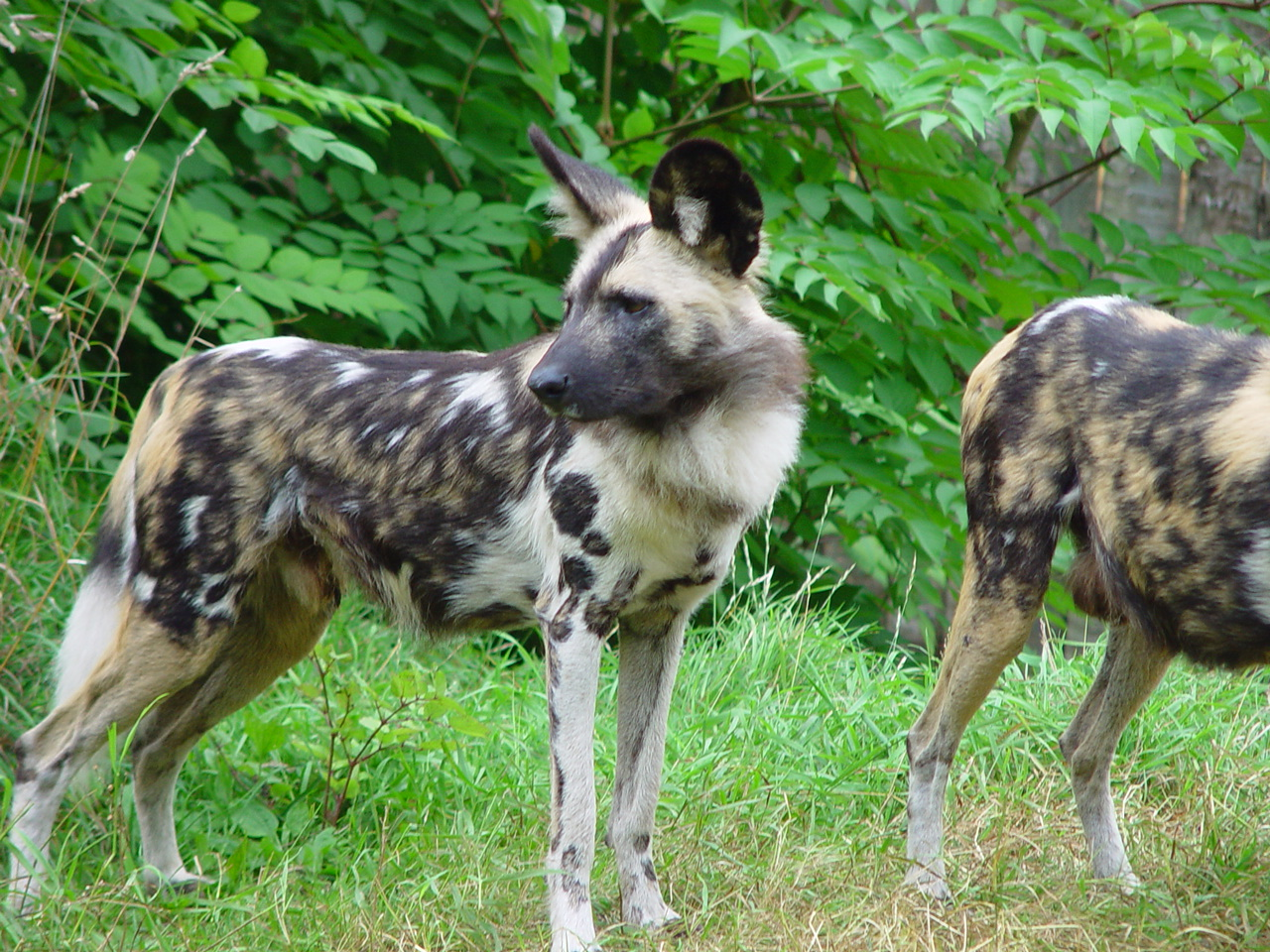 African Wild Dog (Lycaon pictus)